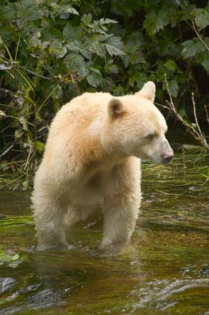 Kermode bear/Spirit bear.Commons:Category:Ursus americanus.